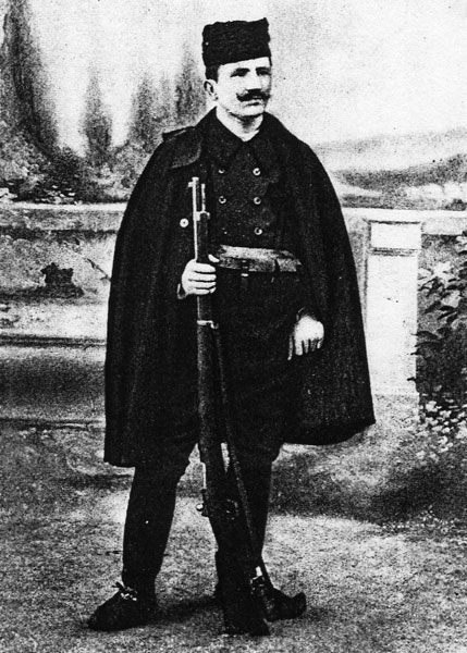 Serbian Chetnik Vojvoda Vojin Popović during his service in Macedonia